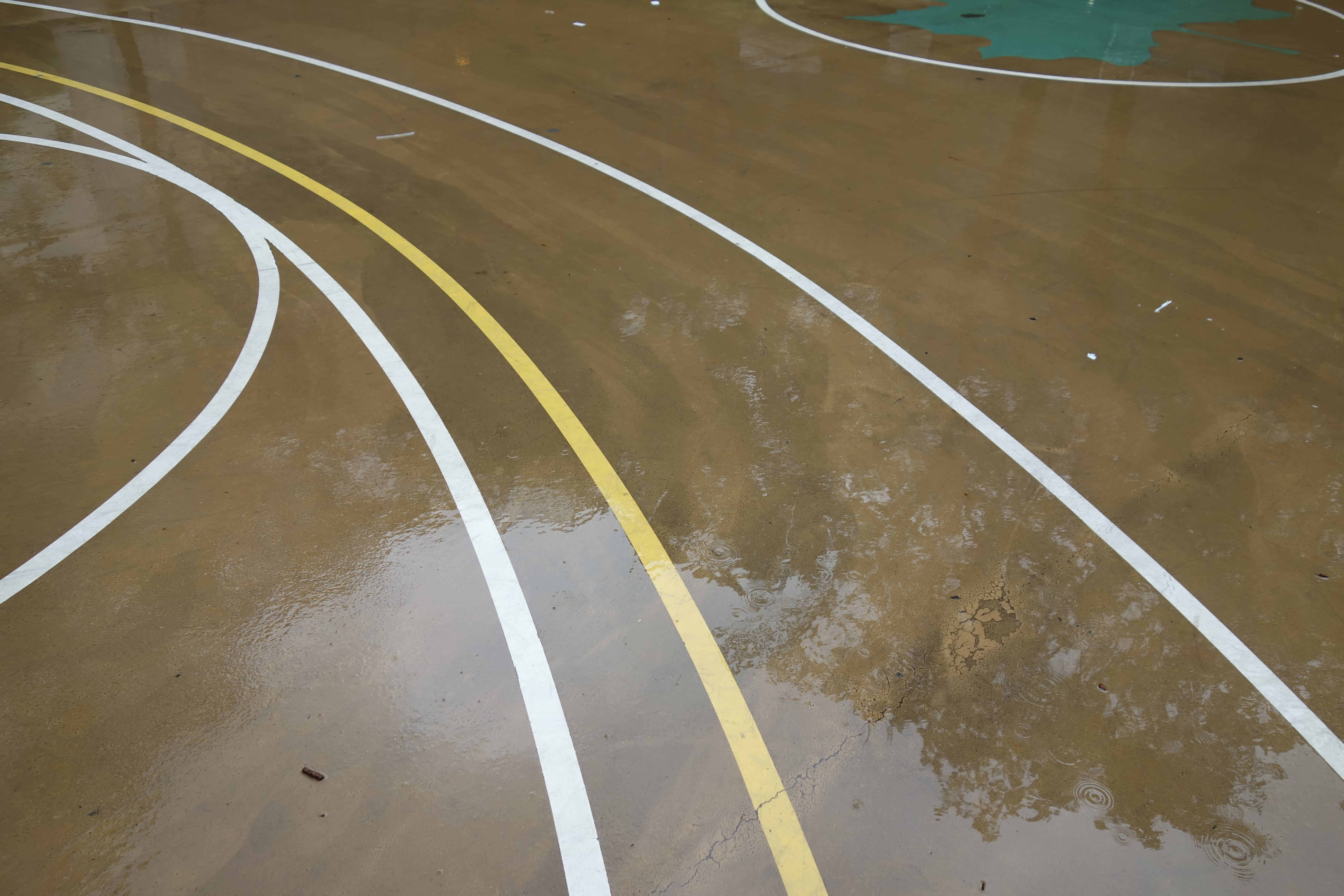 The main basketball court at the north end of Samuel N. Bennerson II Playground, within the Amsterdam Houses at West 64th Street between Amsterdam Avenue and West End Avenue near Lincoln Center in Lincoln Square, Manhattan. The park's two courts were upgraded during the 2018 renovations to the park, Note that the court features three different three-point lines. From left-to-right, high school distance, NCAA/FIBA distance, and NBA distance.